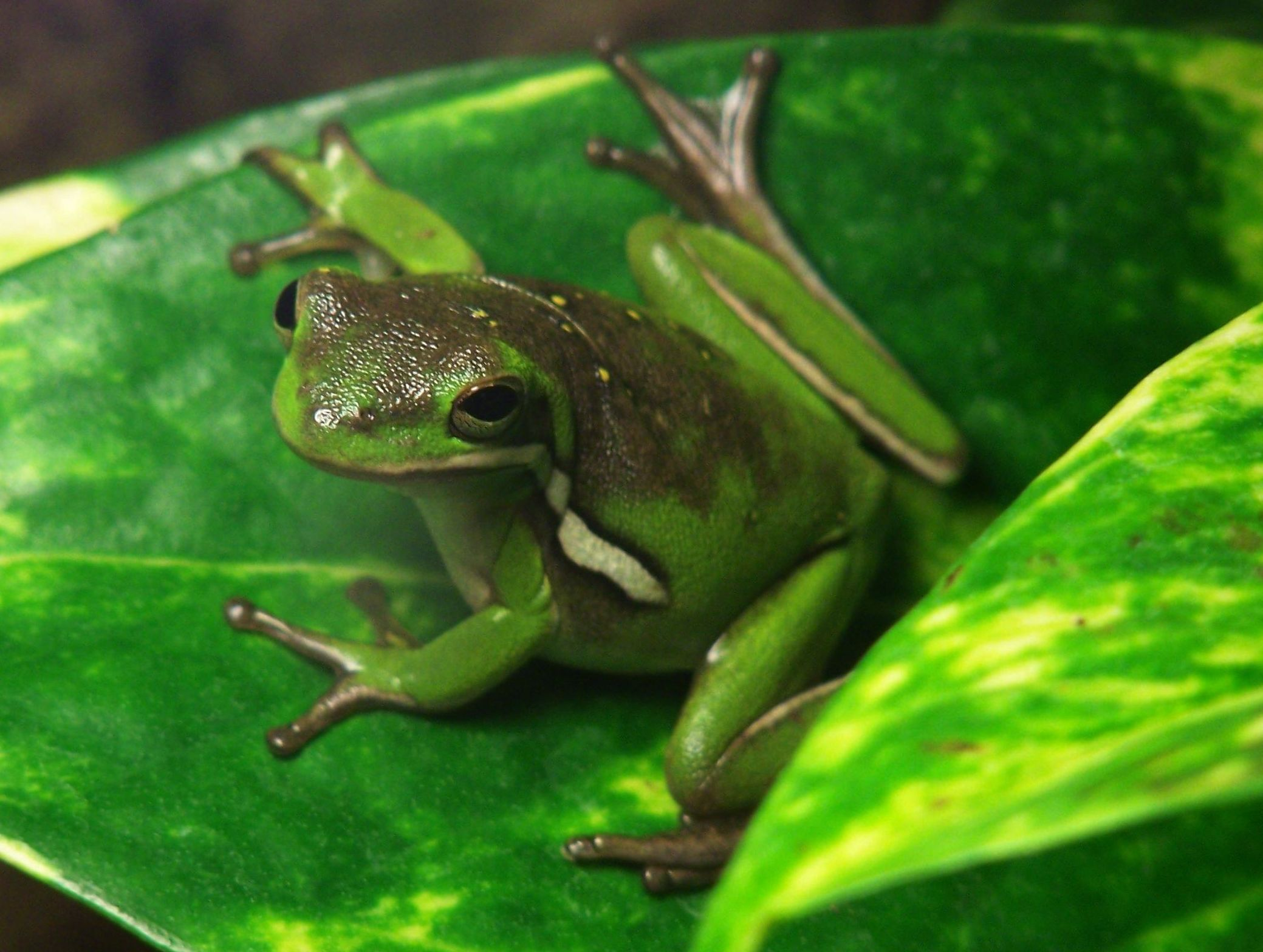 American green treefrog (Hyla cinerea)